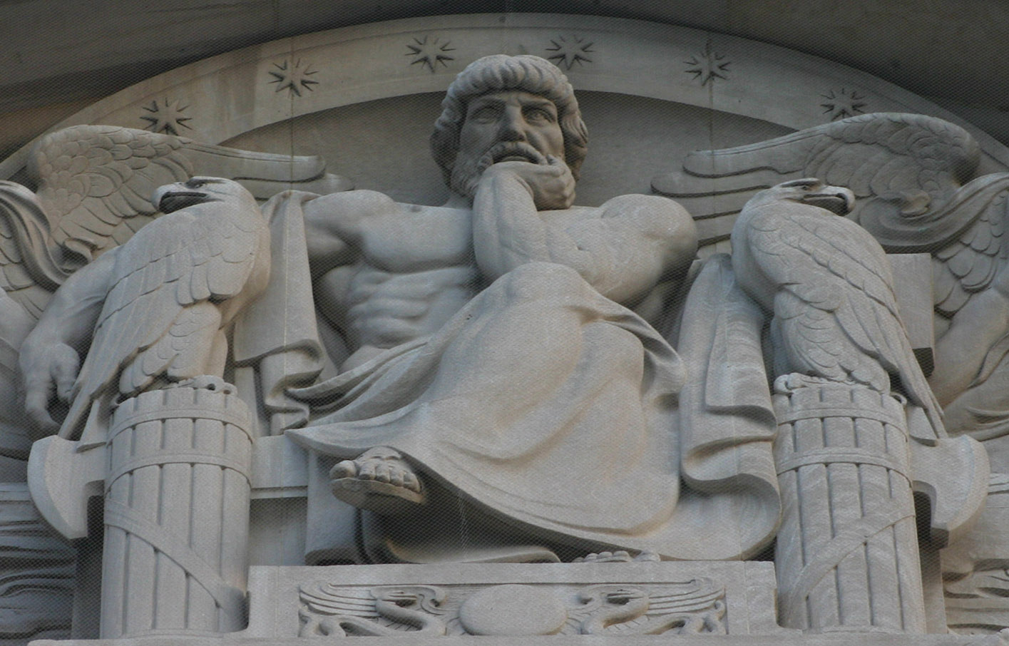 The centerpiece of the pediment on the PA. Ave NW side. "Destiny," January 12, 1936 Design by Adolph A. Weinman Carved by Edward Ardolino Company In Adolph Weinman's highly symbolic pediment for the Pennsylvania Avenue side of the National Archives Building, an enthroned Zeus-like figure "Destiny" is flanked by figures representing "The Arts of War" and "The Arts of Peace." These are surrounded by figures representing "The Romance of History" and "The Song of Achievement." Weinman's theme was that progress is determined by knowledge of the past: knowledge gained through documents held in the Archives.